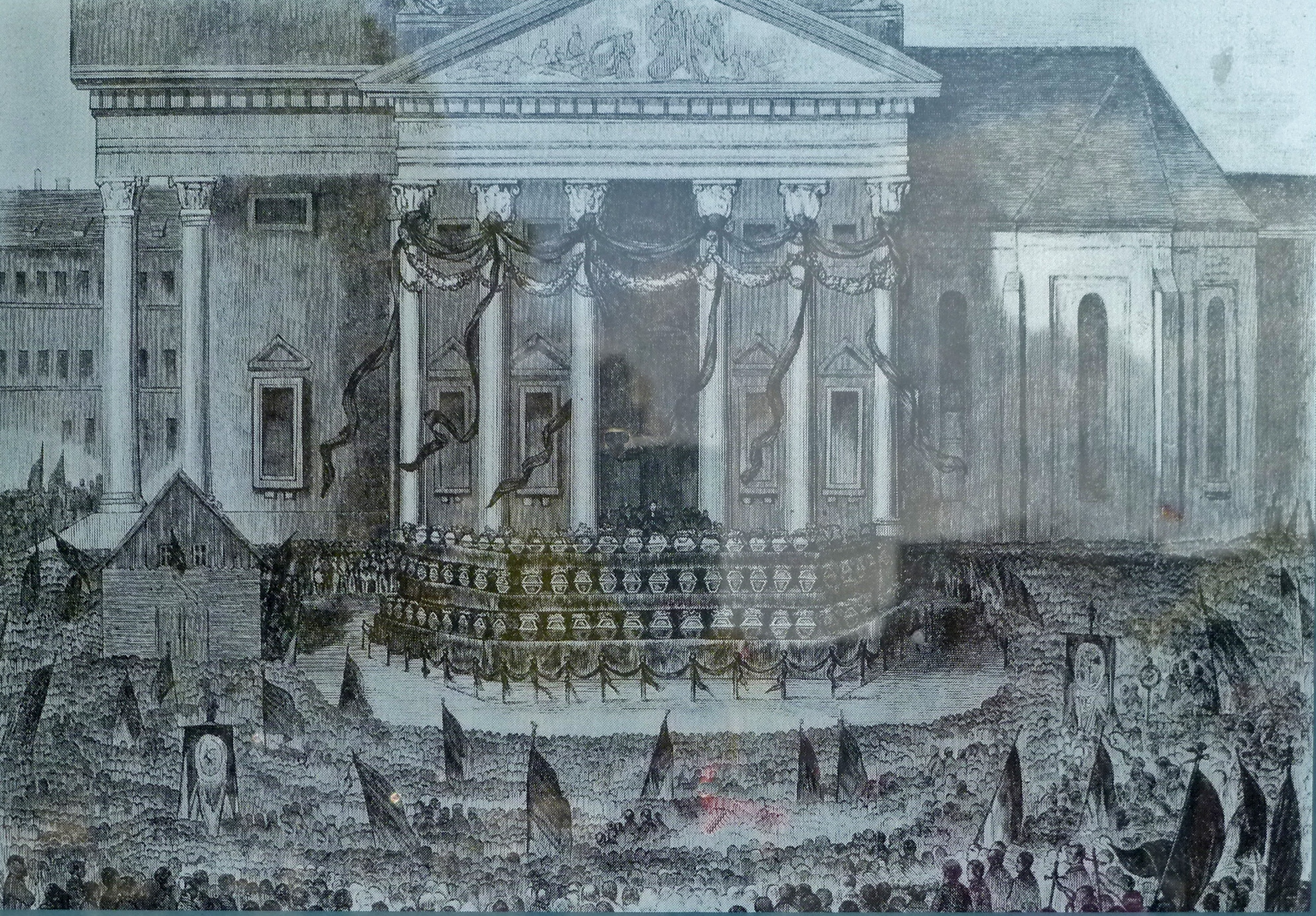 The dead are laid out on the Gendarmenmarkt, Berlin; March Revolution 1848; illustration in the Illustrierte Zeiting, Leipzig, 1848